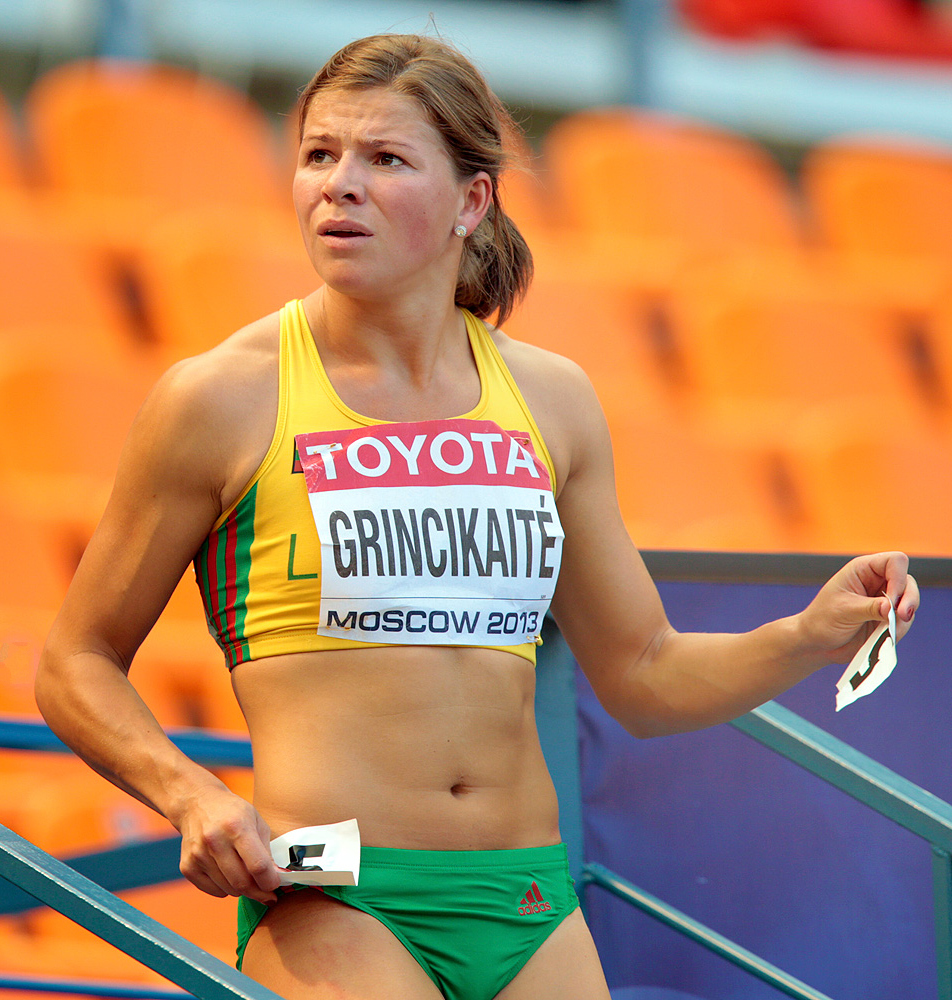 Lina Grincikaite in 2013 World Championships in Athletics